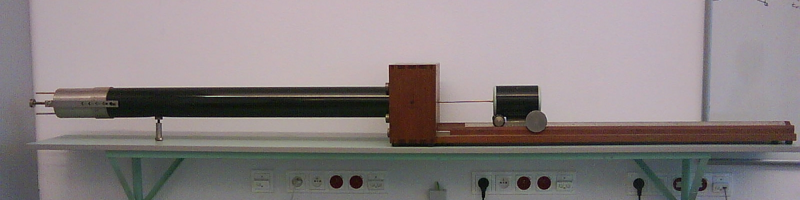 Kundt's tube in laboratory.